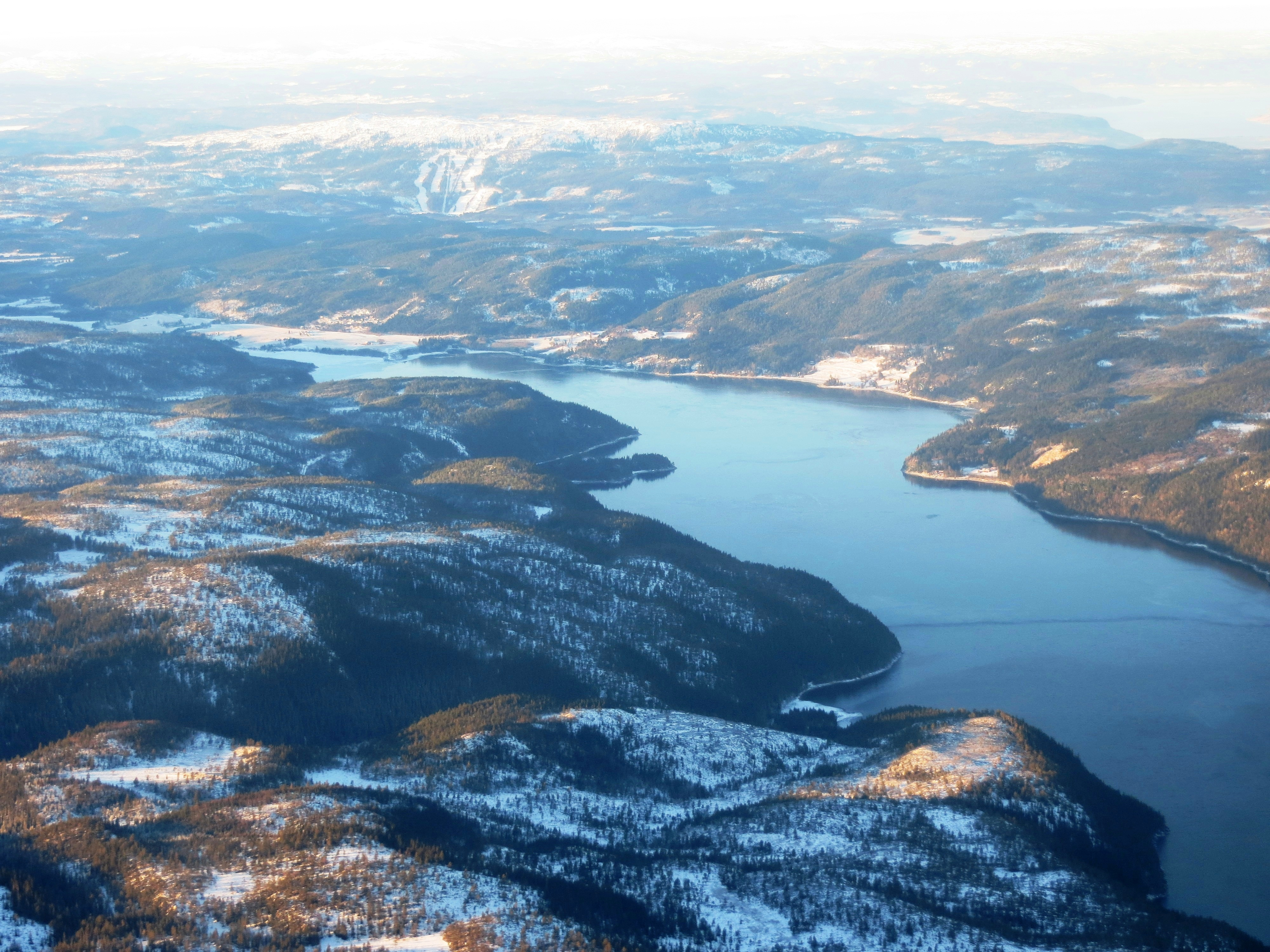 Vassfjellet mountains in the Selbu municipality, south of Trondheim in central Norway